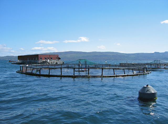 Salmon farm in Portree Bay A large farm producing salmon mainly for smoking. At this time of the year the fish are reaching maturity. They will soon be removed for processing and stock building in time for the Christmas 2008 market.